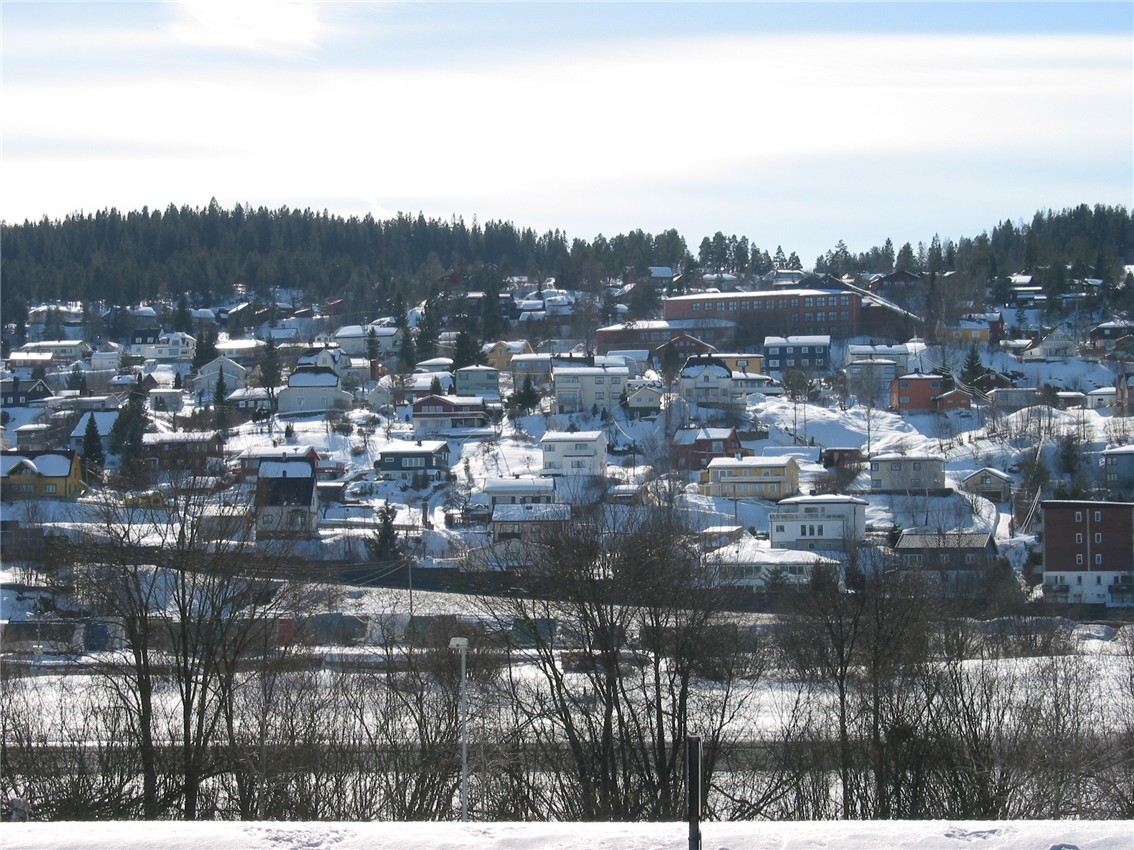 The suburban area Rælingen in Rælingen municipality, Norway. Taken by me on March 25, 2006.